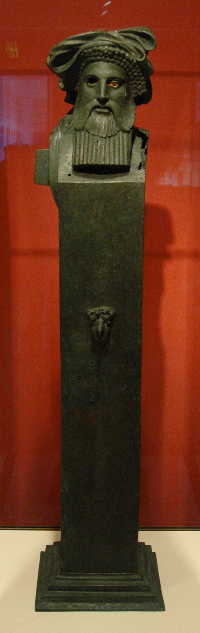 Herm of Dionysos. Bronze and ivory, made in Asia Minor, 100–50 BC.